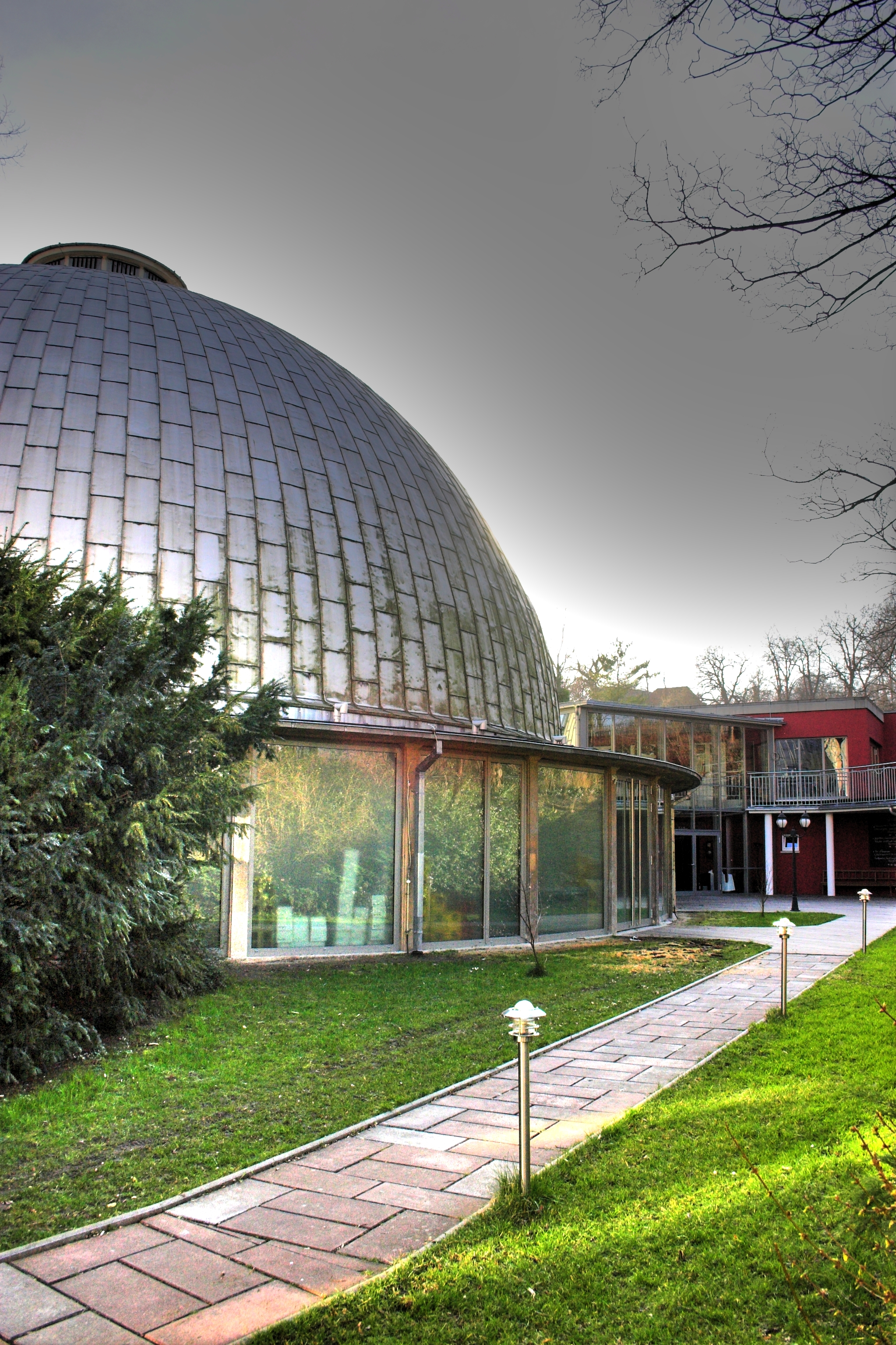 Planetarium Jena Seitenansicht